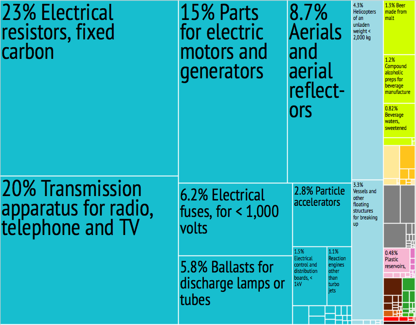 St. Kitts and Nevis Export Treemap from MIT Harvard Economic Complexity Observatory